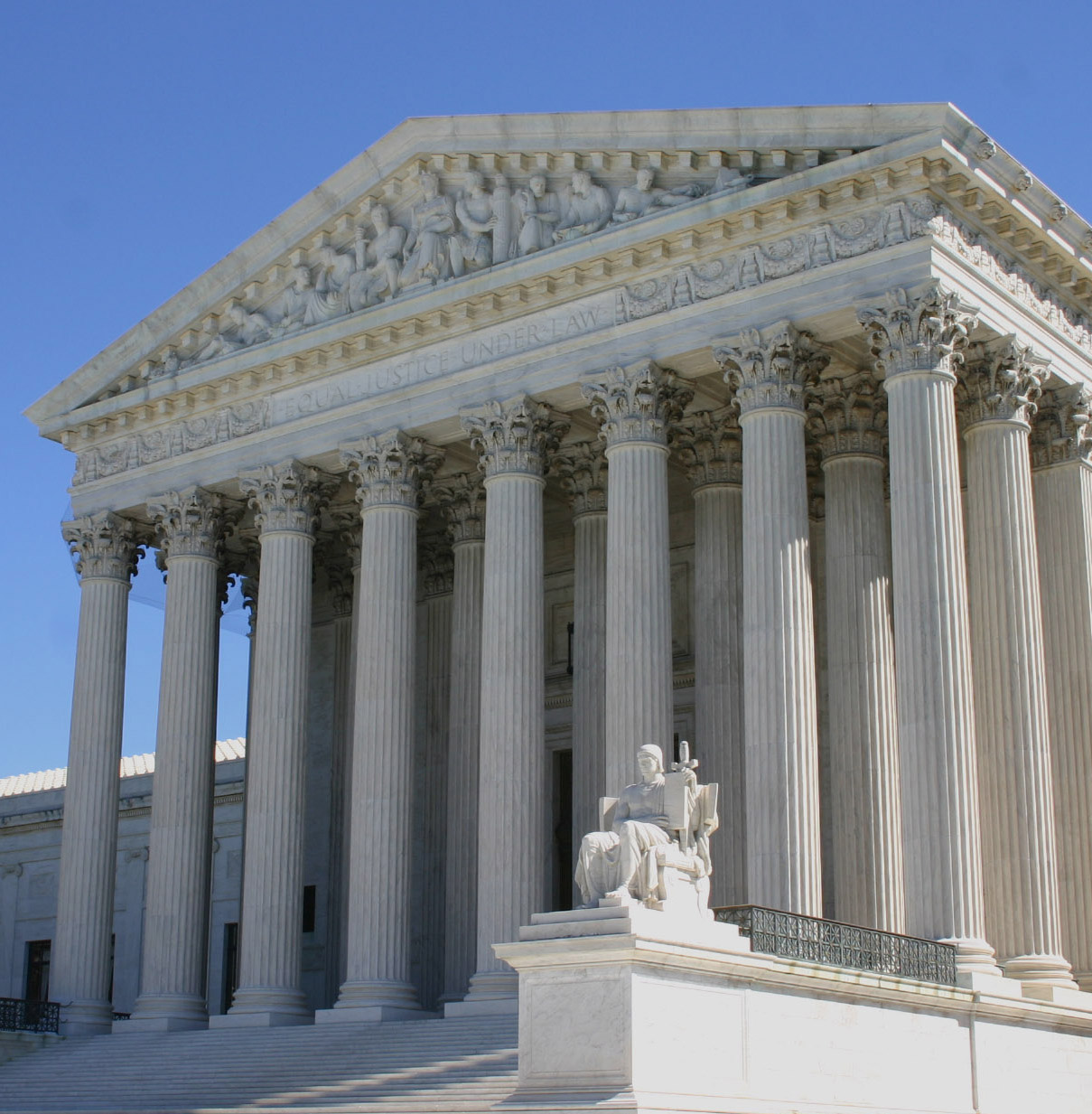 United State Supreme Court Building